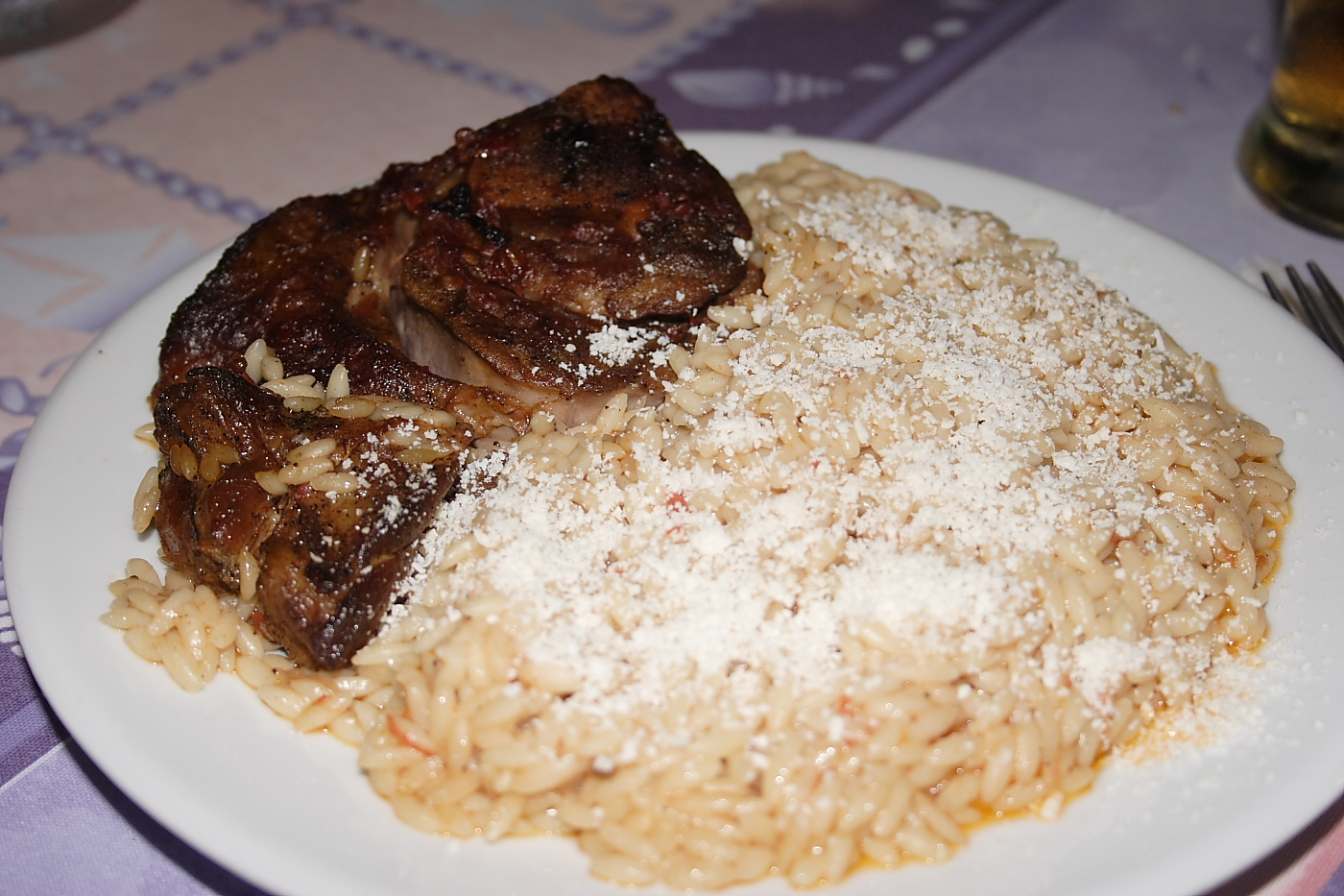 Giouvetsi - leg of lamb with kritharaki (= noodles in the form of rice)